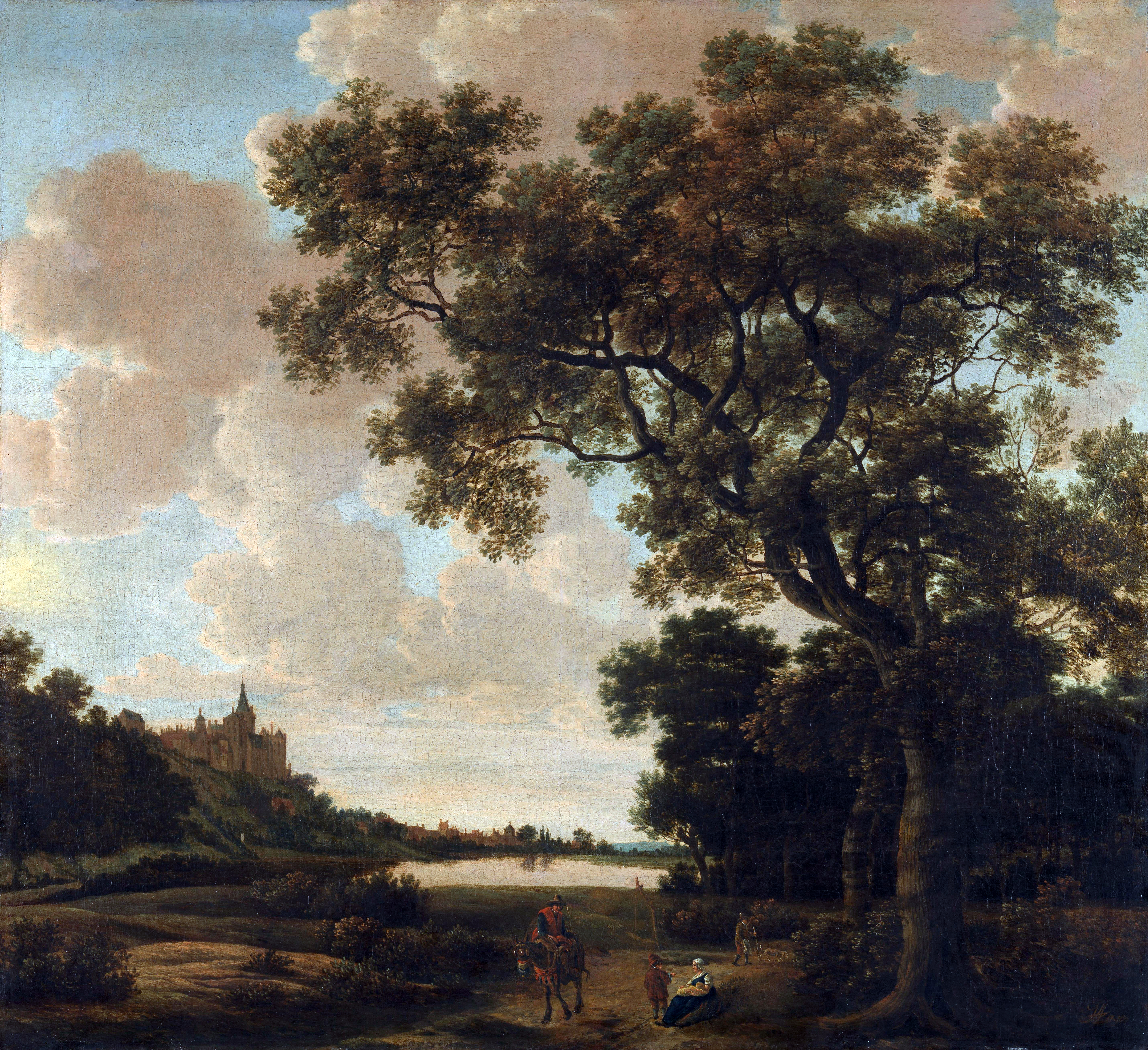 Landscape with the Schwanenturm, Kleve, Joris van der Haagen, 1640 - 1669